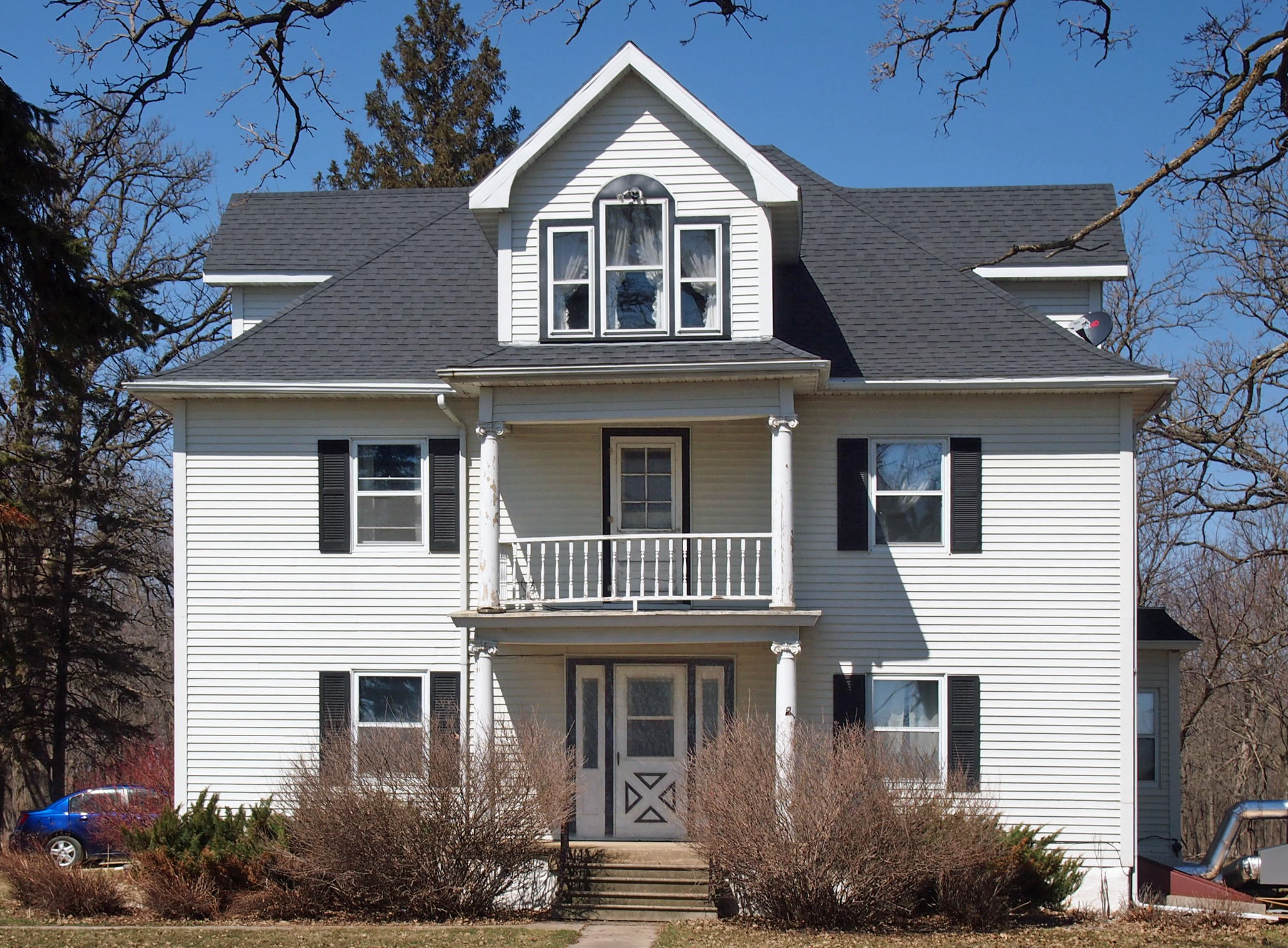 Holden Lutheran Church Parsonage, Wanamingo Township, Minnesota, USA. Long-time residence of Bernt Julius Muus and original site of what became St. Olaf College. Viewed from the south.